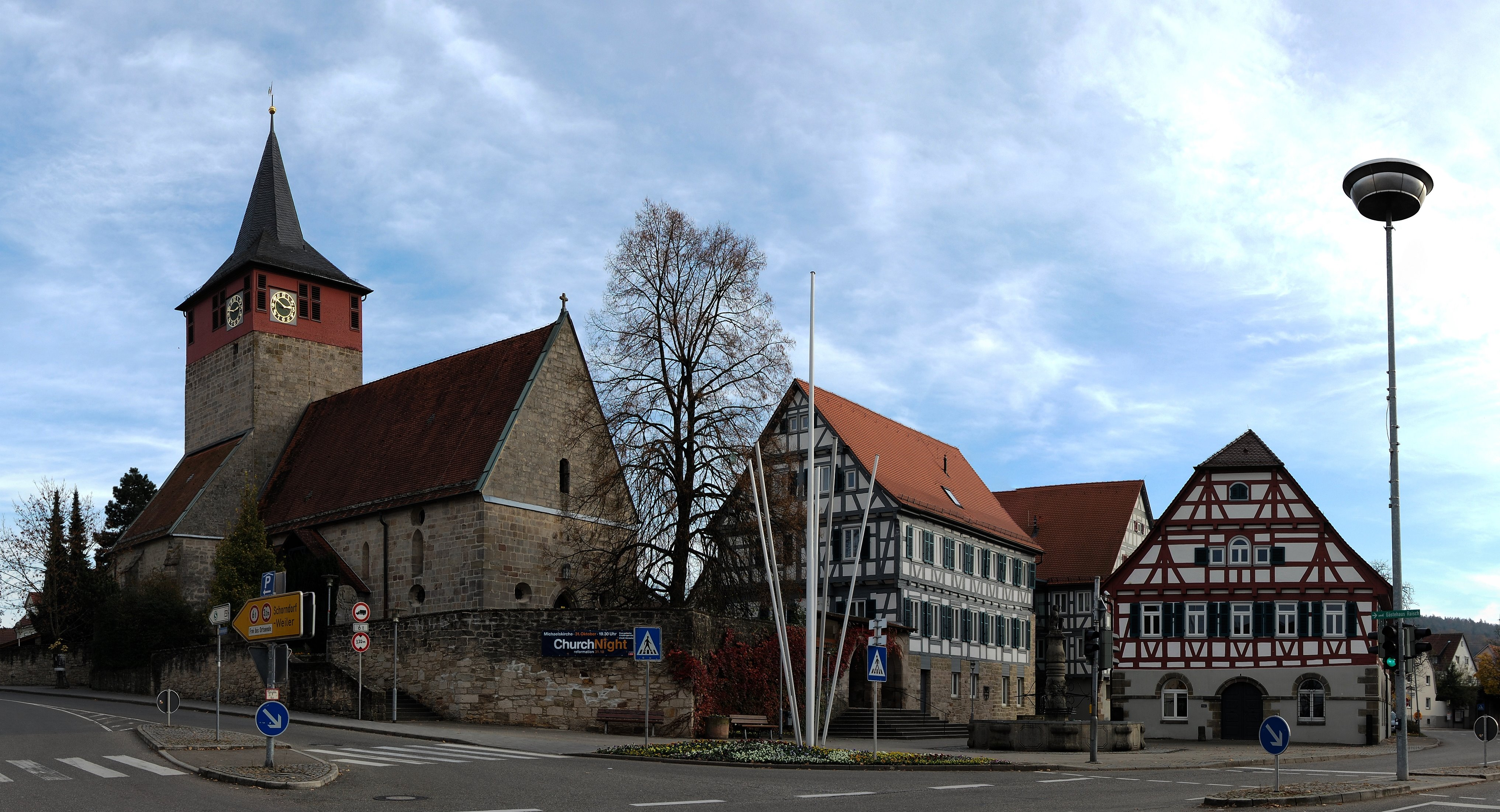 Winterbach (Remstal), Germany: church st. Michael and city halls This image is a 3x4 stitching with hugin and was second edited with ShiftN.